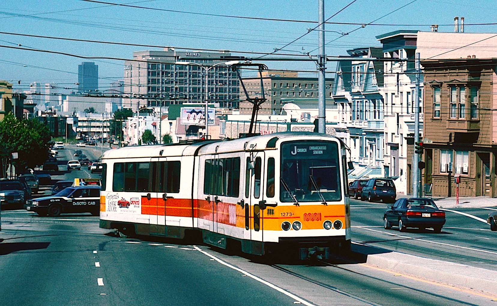 San Francisco Muni Boeing LRV 1273, outbound on the J-Church line, turning onto San Jose Avenue from 30th Street in 1993. This was on a then relatively newly opened 2.3-mile extension of the J-line from 30th Street to Balboa Park BART station. All-day service on this section had begun in May 1993, but cars/trains starting or ending their runs had been using it since August 1991. (Car 1273's destination sign was incorrectly showing Embarcadero Station as the destination.)